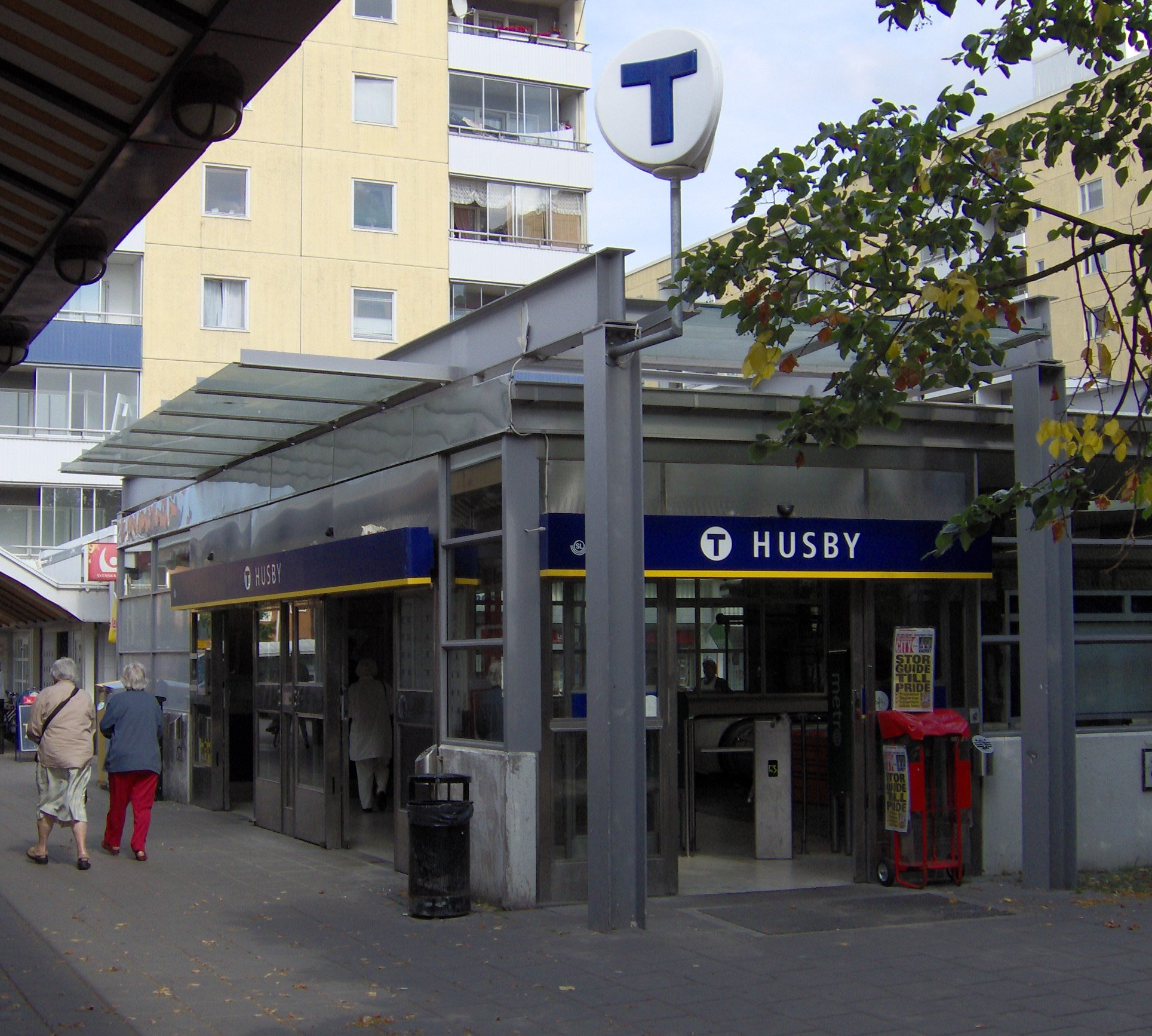 Entrance to the Stockholm metro station Husby.